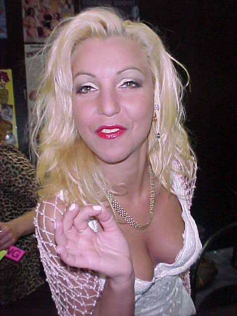 Mila at the AVN Adult Entertainment Expo on July 9, 1999